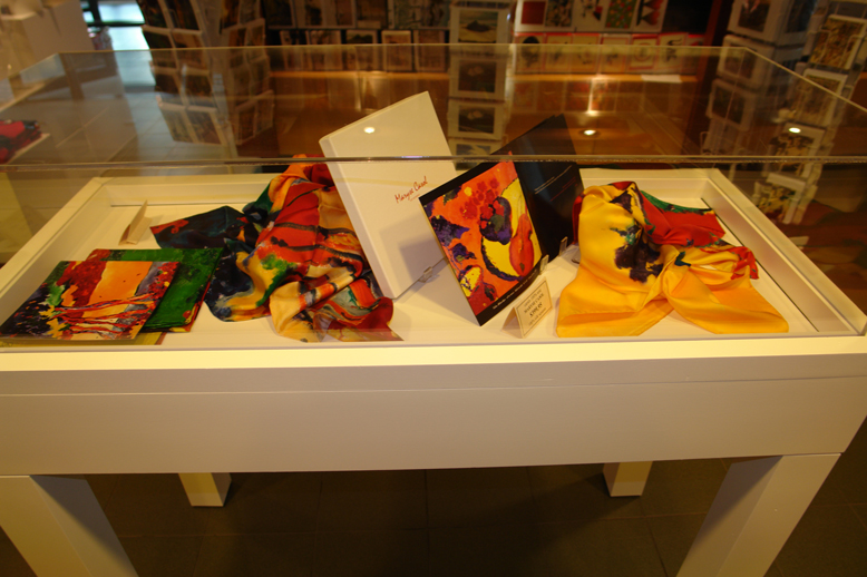 Casol square silk scarves at the Montreal of Fine Arts Boutique.